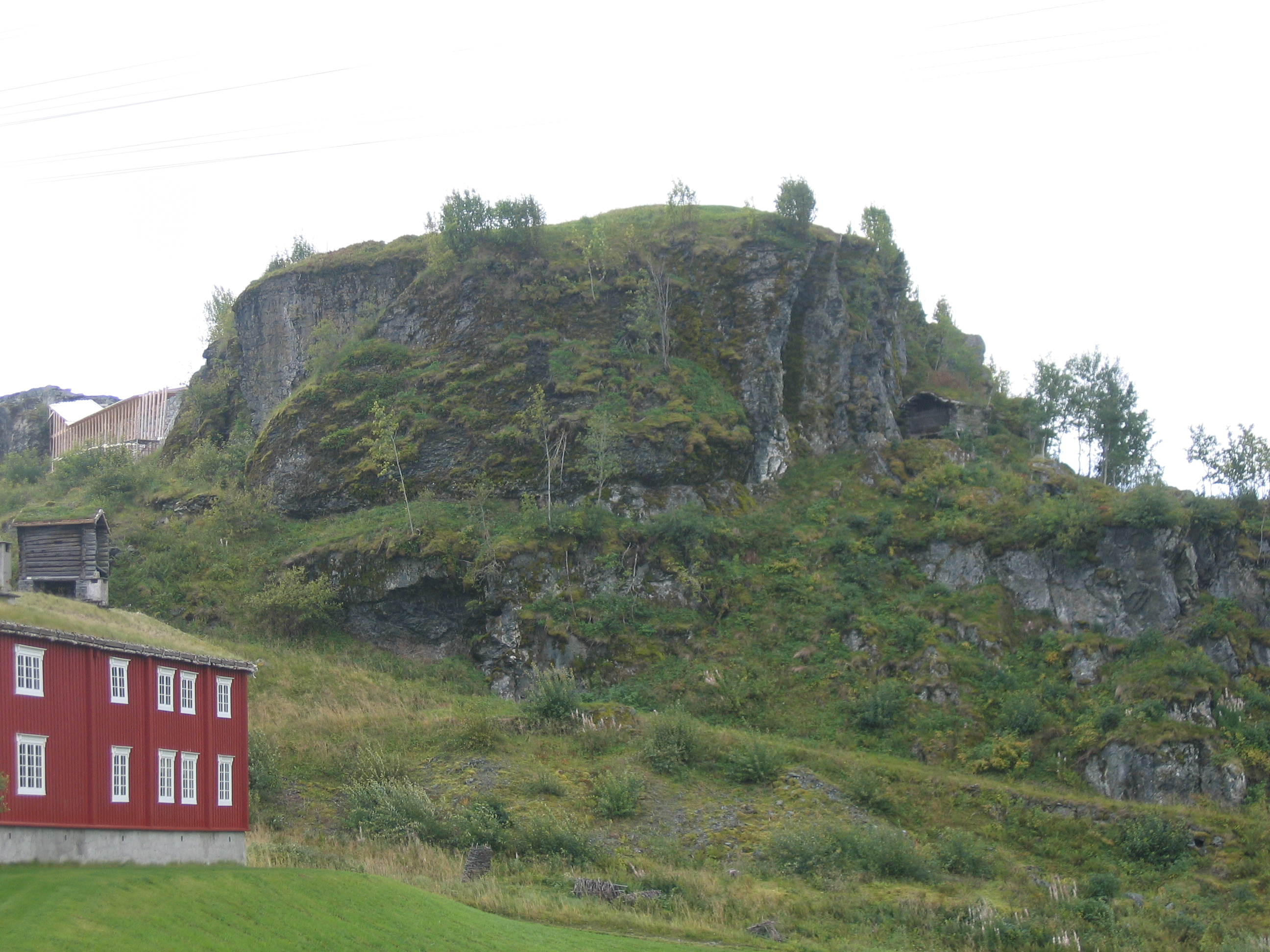 View of the former castle hill today where Sverresborg is located.